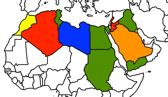 Arab Barometer survey countries